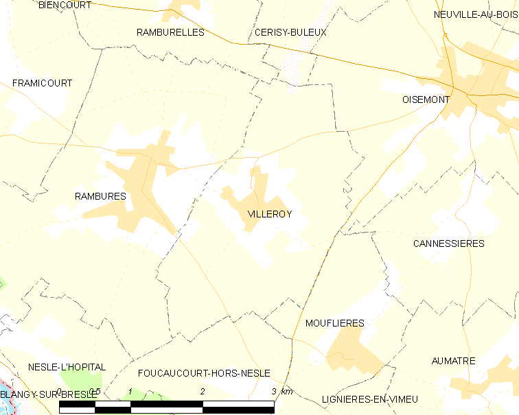 Map of French municipality Villeroy